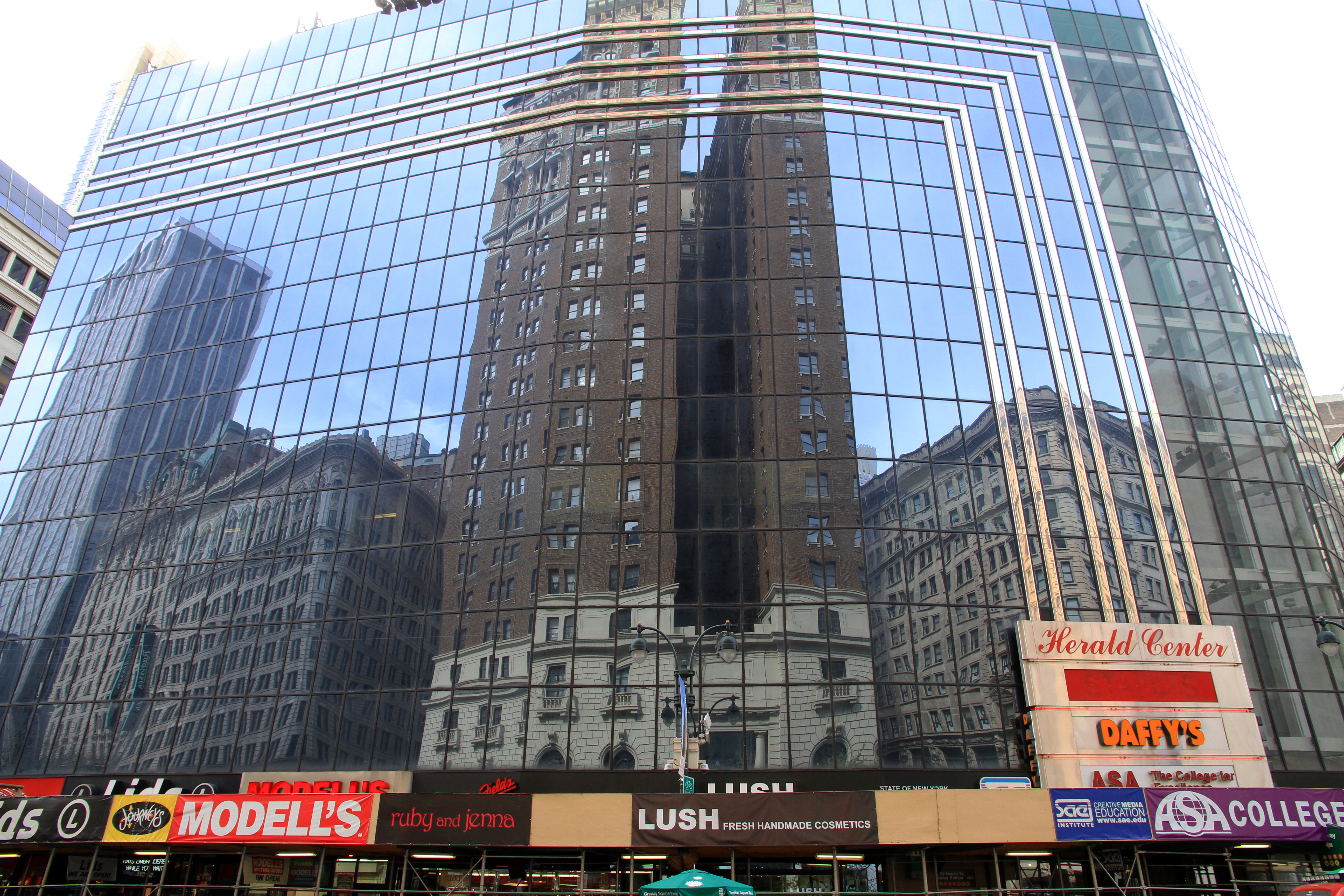 Herald Center Mall, reflecting Herald Towers (Hotel McAlpin), Manhattan Midtown South